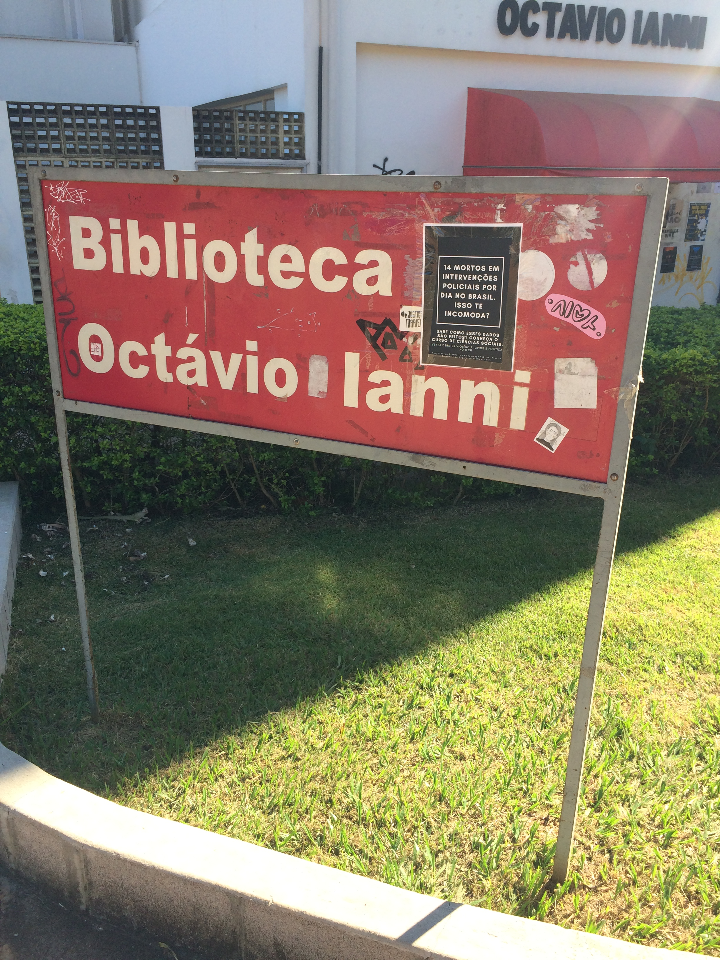 Board of library Octavio Ianni